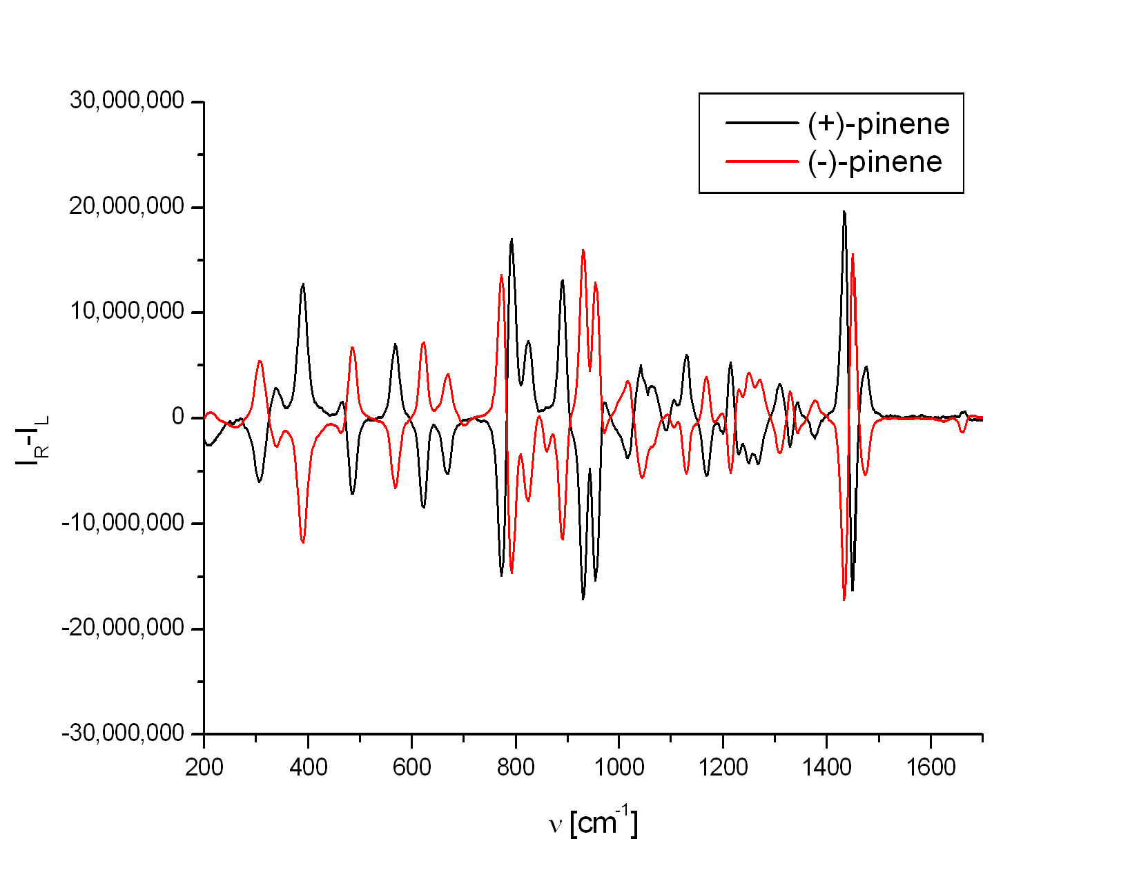 Vibrational Raman optical activity (ROA) spectra of (-) and (+) pinene collected at the Faculty of Chemistry, University of Warsaw using the BioTools ChiralRAMAN™ spectrometer.